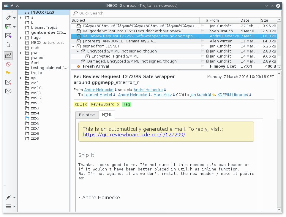 Screenshot of Trojitá, a fast e-mail client